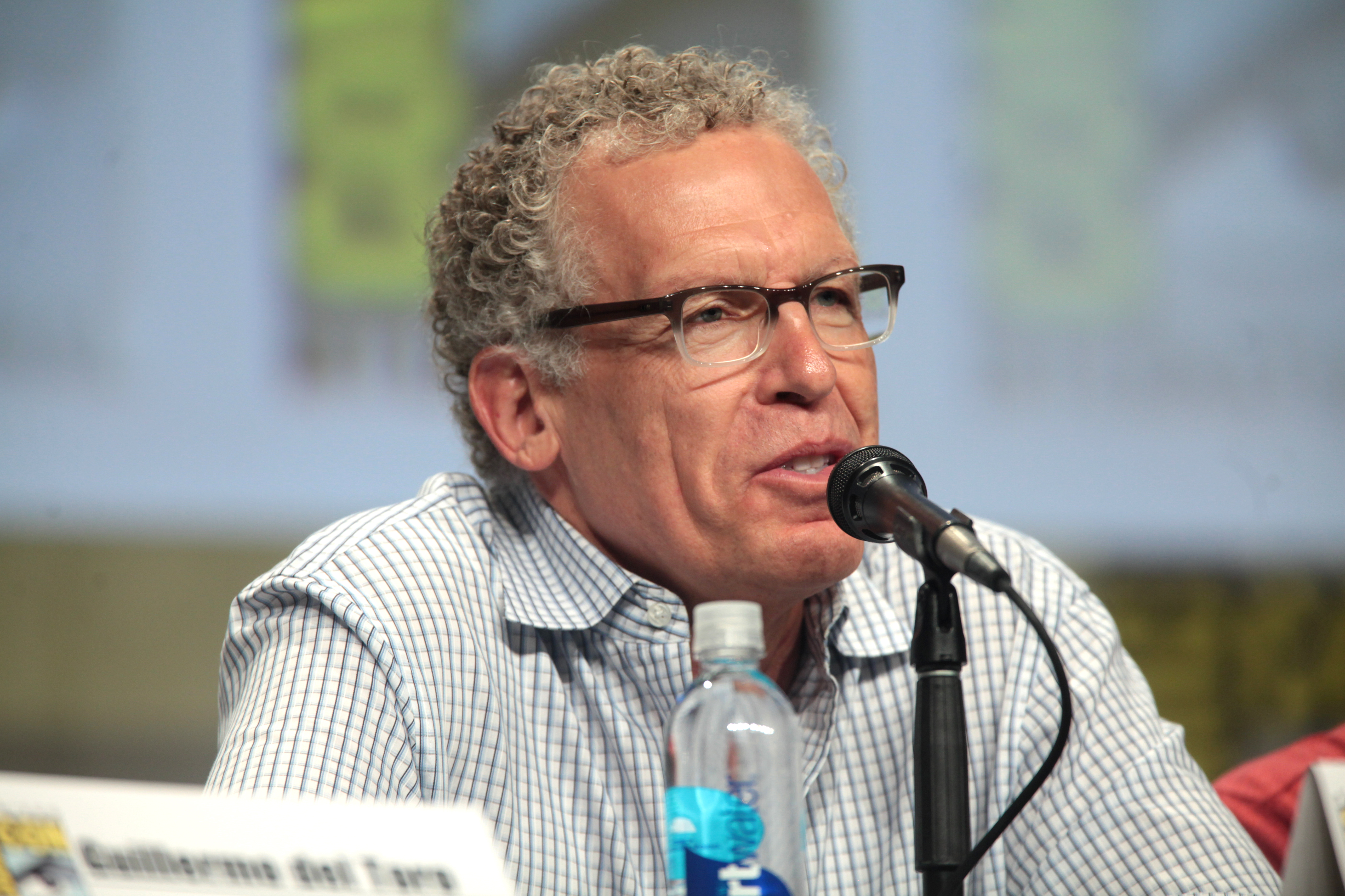 Carlton Cuse speaking at the 2014 San Diego Comic Con International, for "The Strain", at the San Diego Convention Center in San Diego, California.